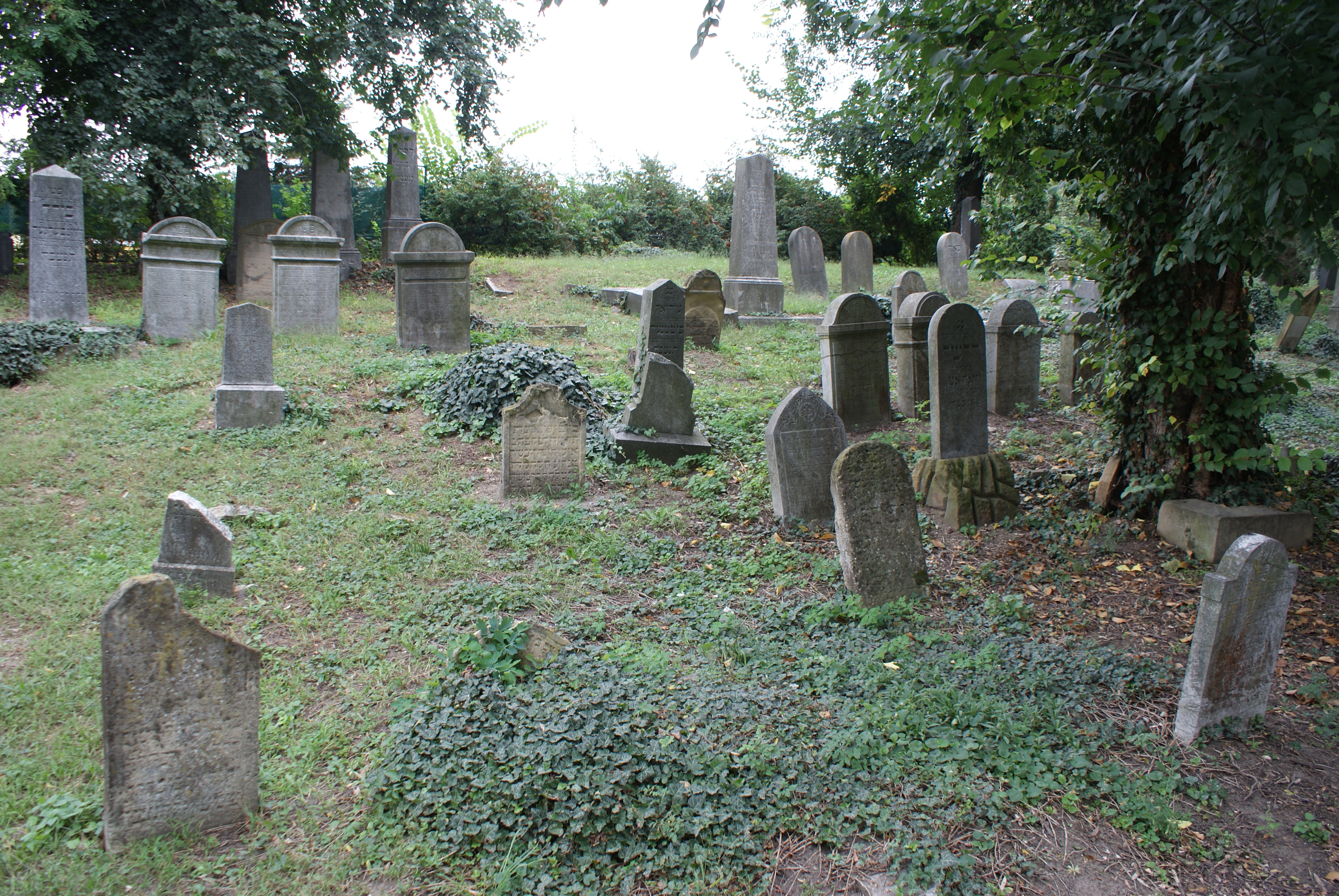 Jewish cemetery in Břeclav, Břeclav district, Czech Republic.